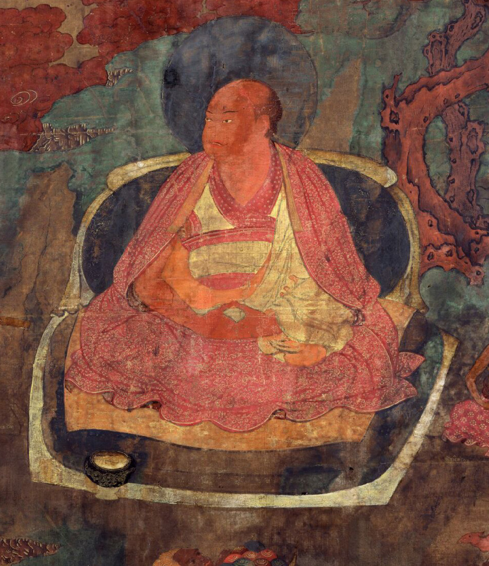 Gomchung Sherab Jangchub ( b.1130 - d.1173) -- Third abbot of Daklha Gampo, Tibet